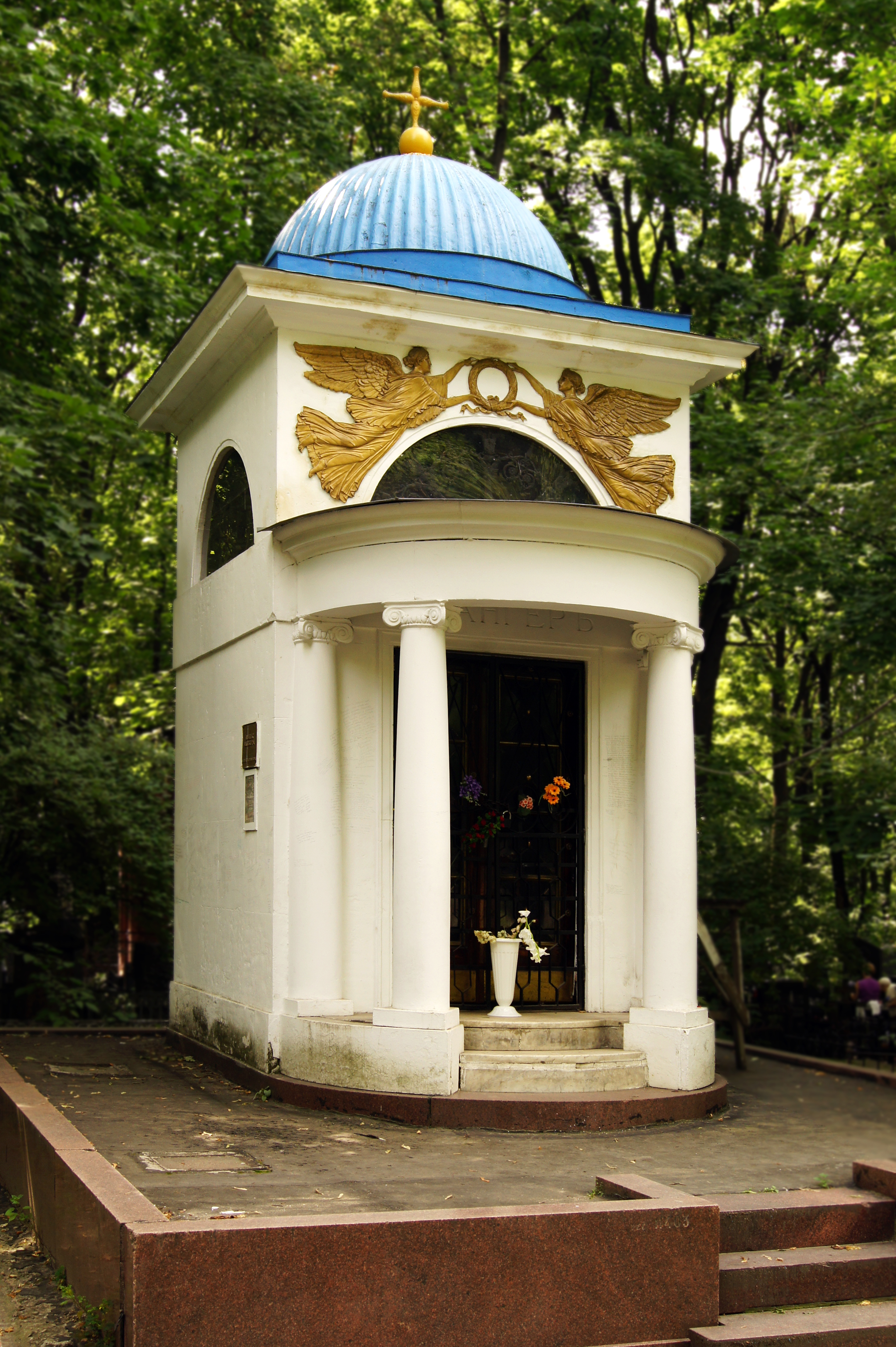 Fyodor Schechtel. Erlanger crypt in Vvedenskoe cemetery.